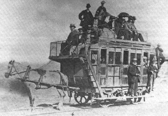 Horse-powered train on the Swansea and Mumbles Railway, Wales